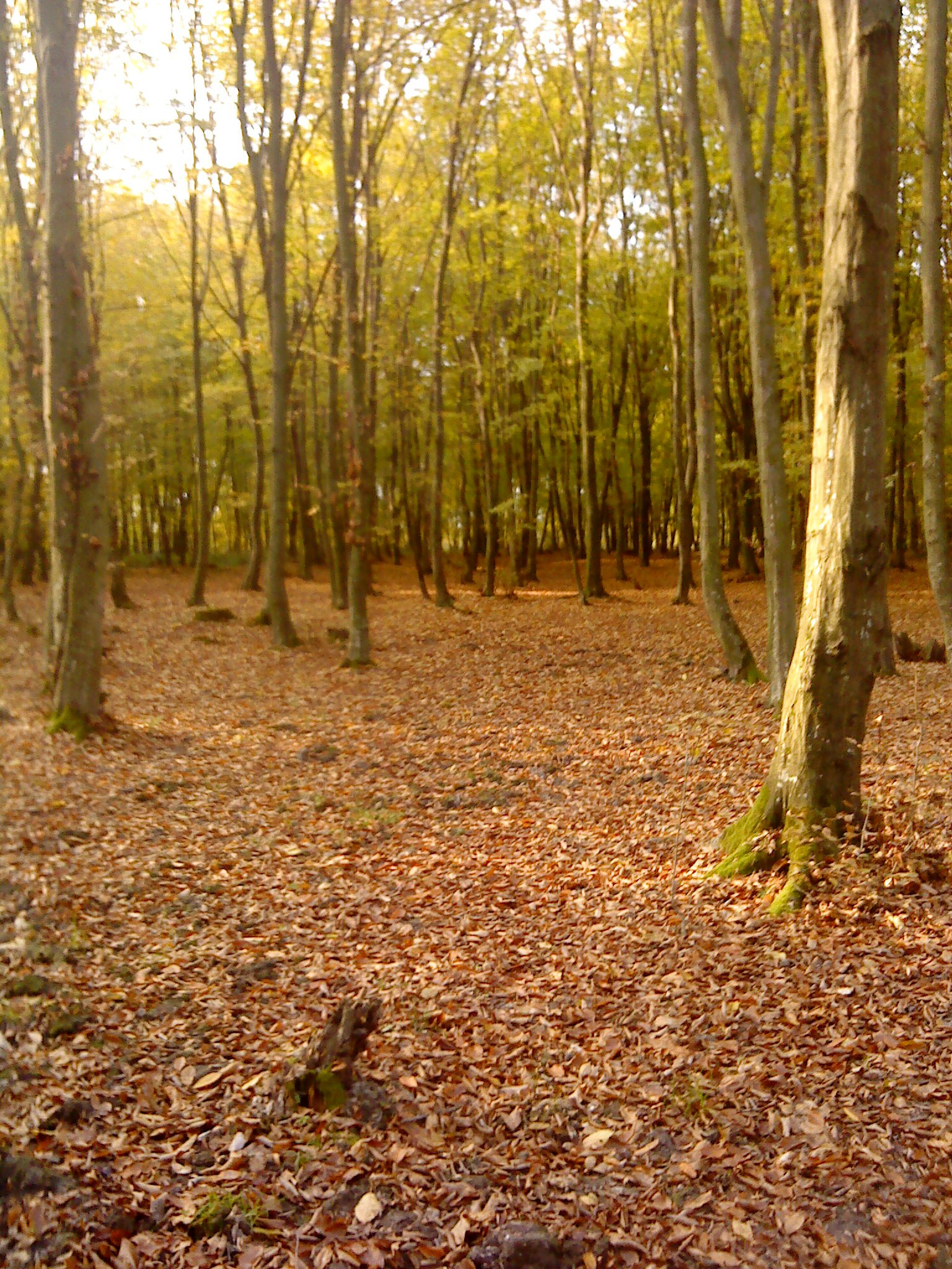 Autumn forest in Mazyarka